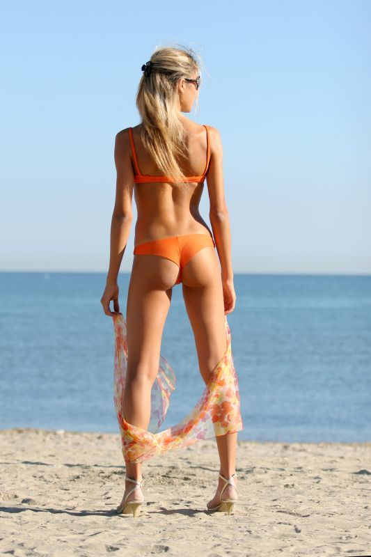 Bikini-girl Silvia in the beach of Cattolica (Italy)